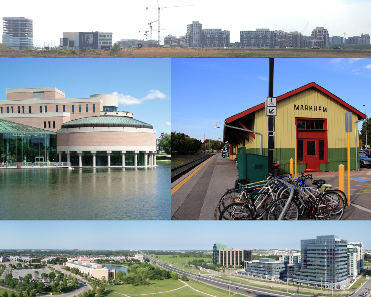 Montage of the City of Markham, Ontario, Canada. From top left to bottom: Skyline of Downtown Markham Markham Civic Centre Historic Markham Railway Station Overview of Markham viewed from Markham Centre